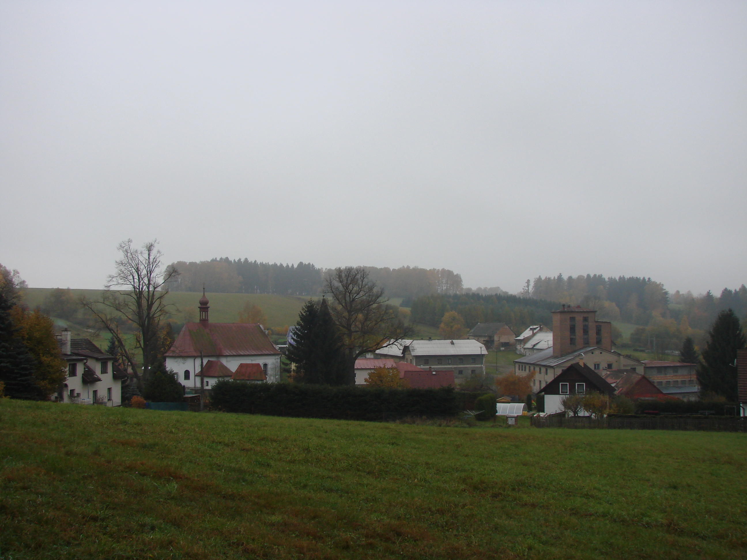 View of the village of the Horní Studenec, the Czech Republic.